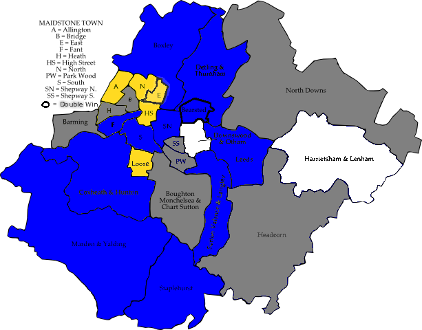 A map of the results of the 2011 Maidstone Council election. Colour legend by wards won: Conservative party Liberal Democrats independents Wards in grey were not contested in 2011